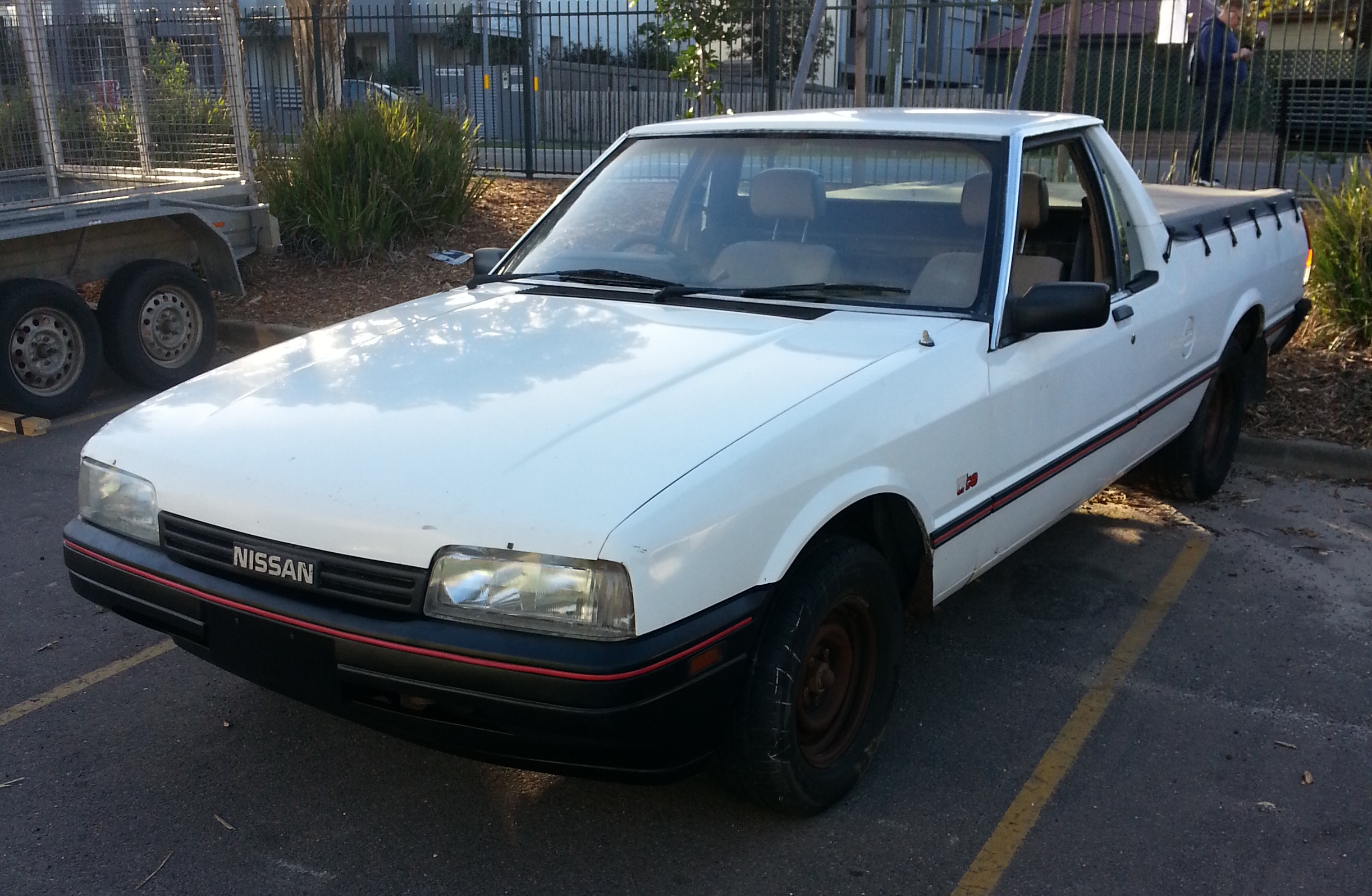 Nissan ute which is rebaged Ford Falcon